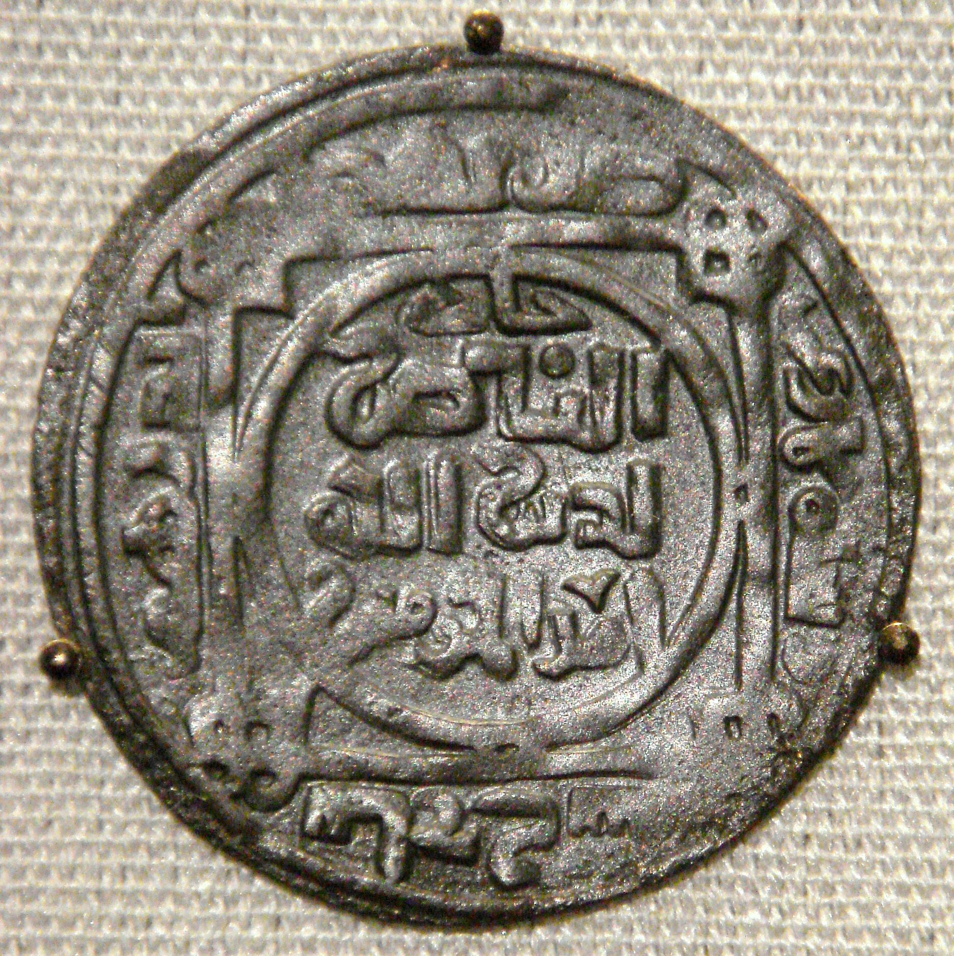 Mongol_Great_Khans_coin_minted_at_Balk_Afghanistan_AH_618_AD_1221 Minted for Abbasid Caliph al-Nasir, according to the Arabic inscription.